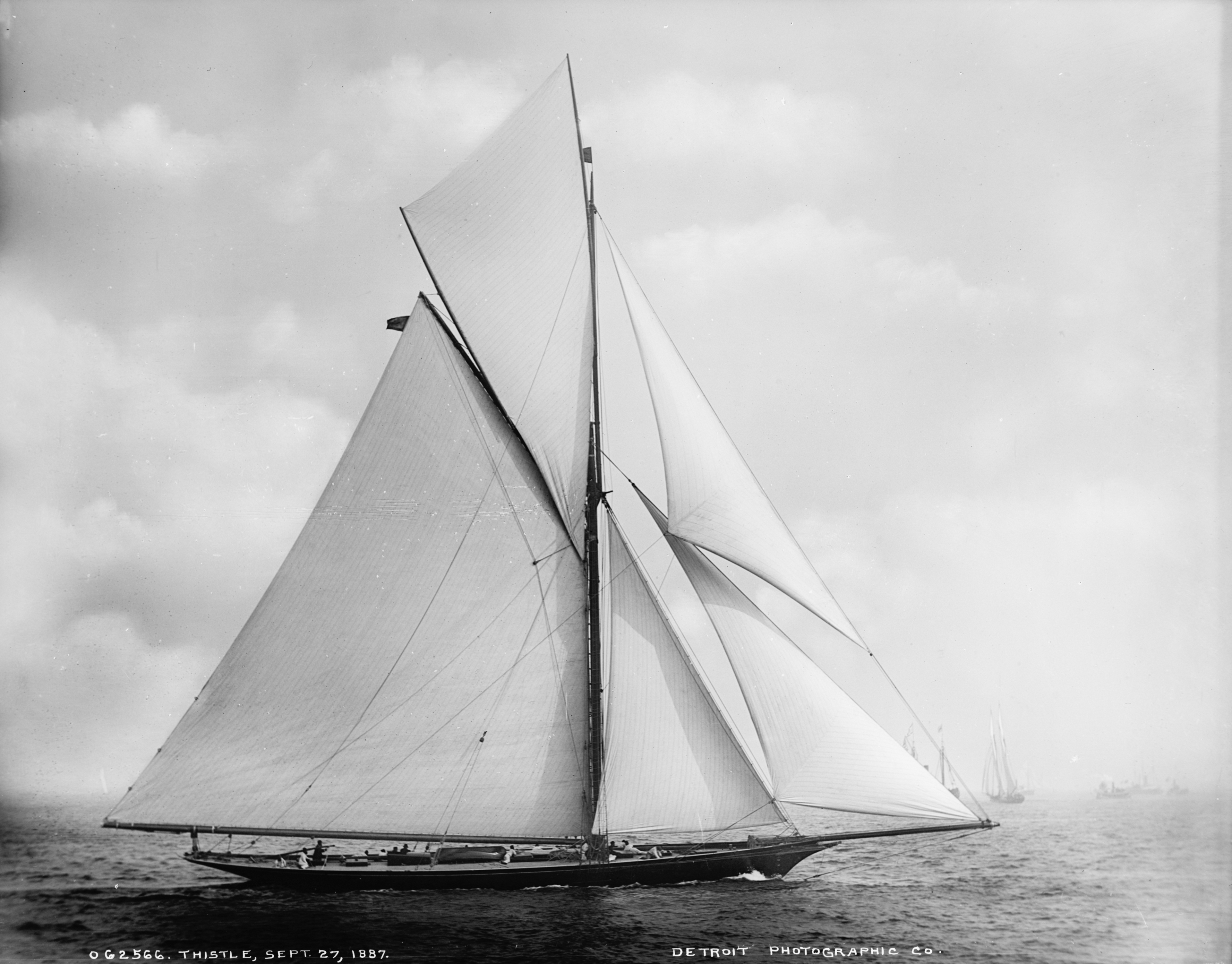 The James Bell syndicate's cutter Thistle (George Lennox Watson design, built in 1887 at the David & William Henderson shipyard, Glasgow). She was a challenger for the America's Cup in 1887, and is pictured here in the first race on September 27th, which she lost to the New York Yacht Club's defender Volunteer.